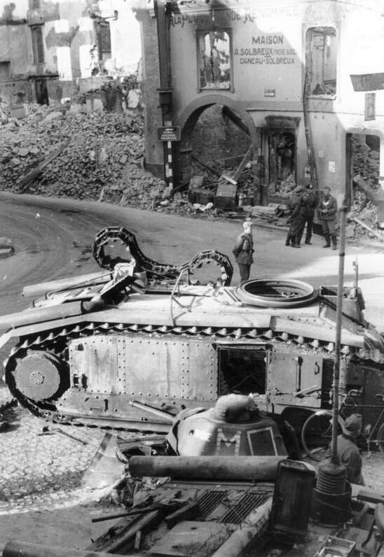 A french "Char B1" tank with the designation "Rhone", after it has been destroyed by its own crew on May the 16th 1940, in Beaumont, Belgium